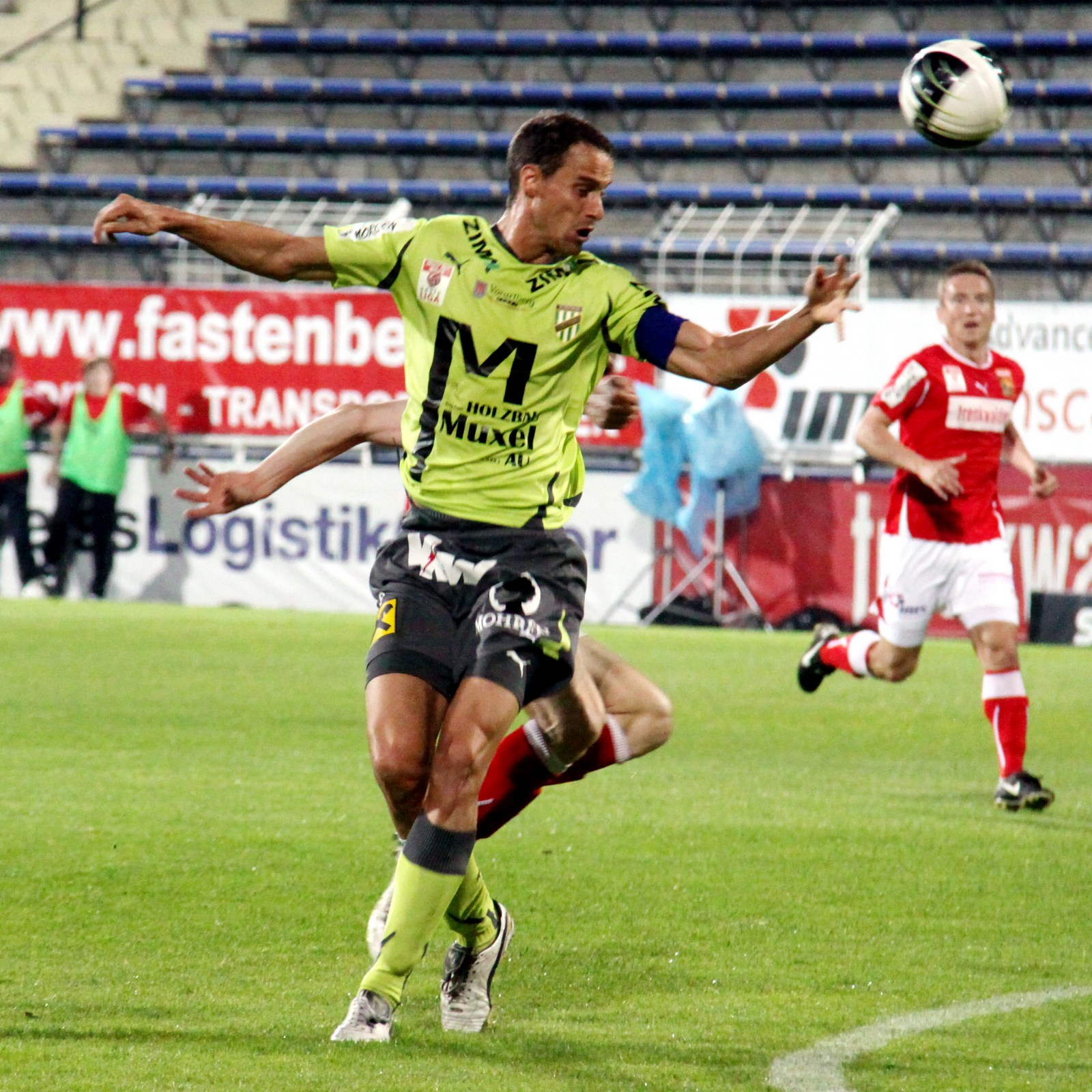 Peter Pöllhuber - SC Austria Lustenau